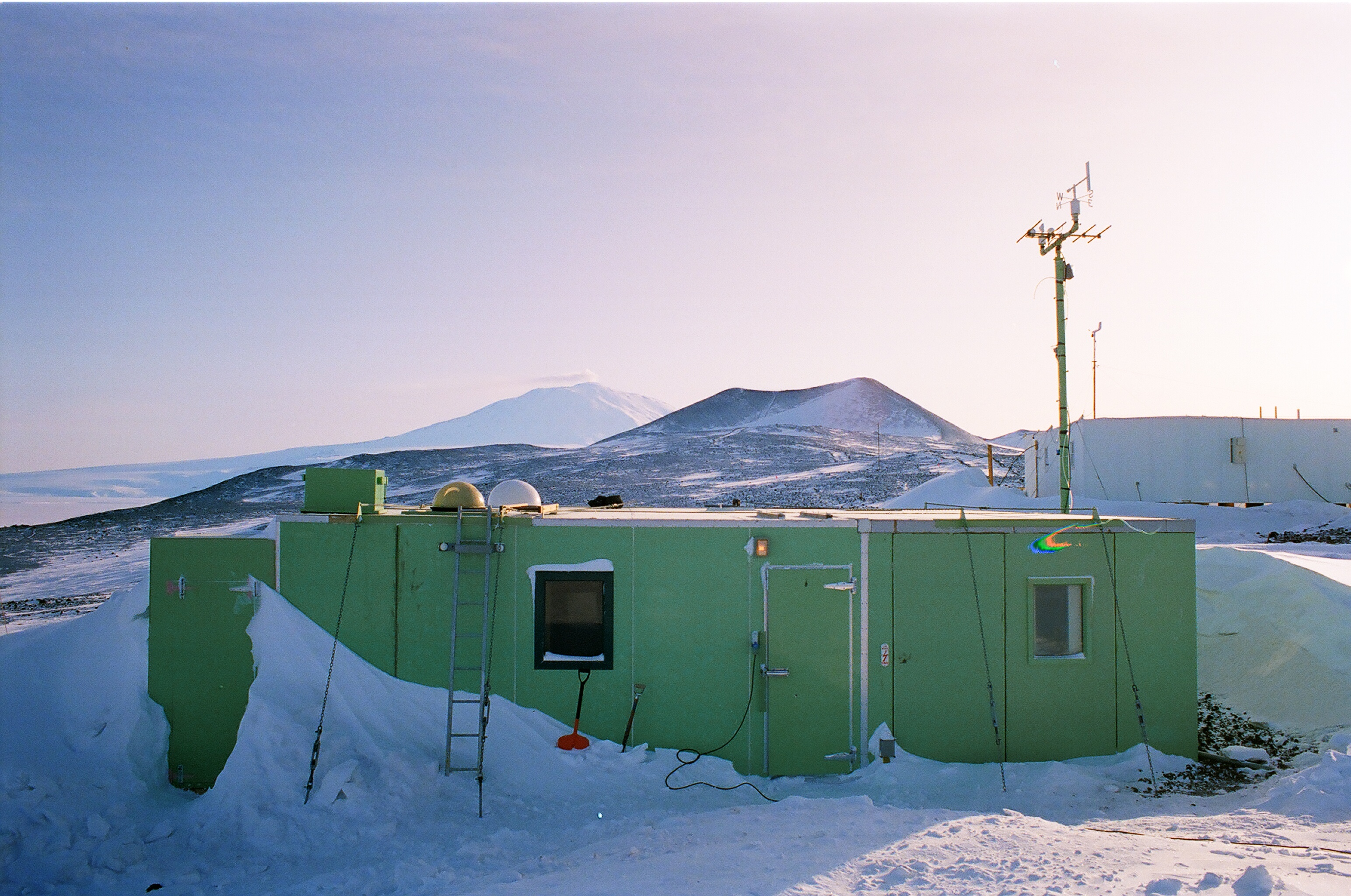 Antarctica New Zealand's Arrival Heights research laboratory, circa 1993.